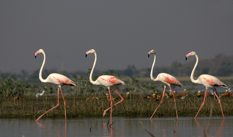 Four Greater Flamingoes in Bhigwan, Maharashtra, India.